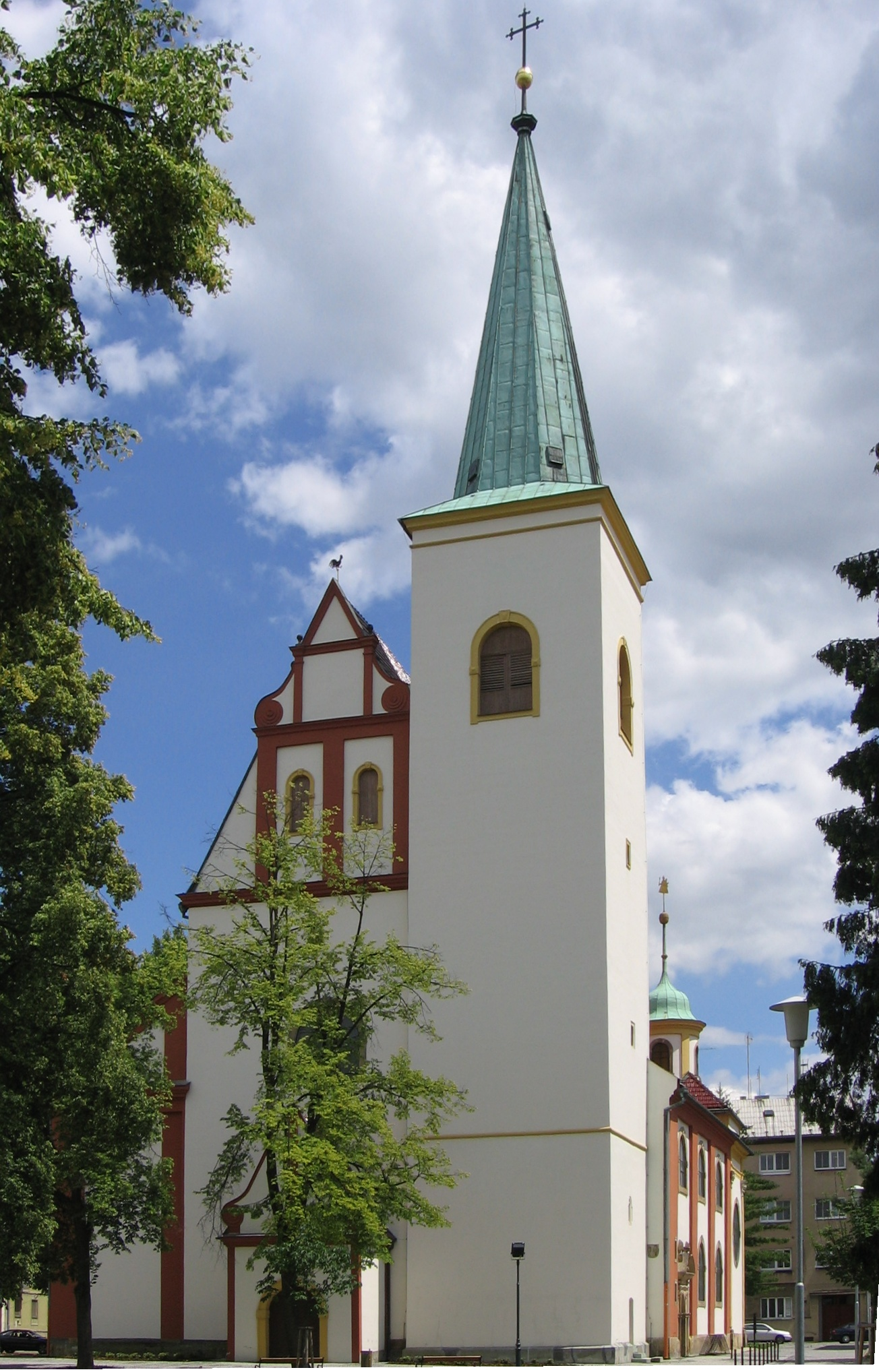 St Mark Church in Litovel (Czech Republic)